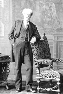 Prince Alfred of Liechtenstein (1842-1907)